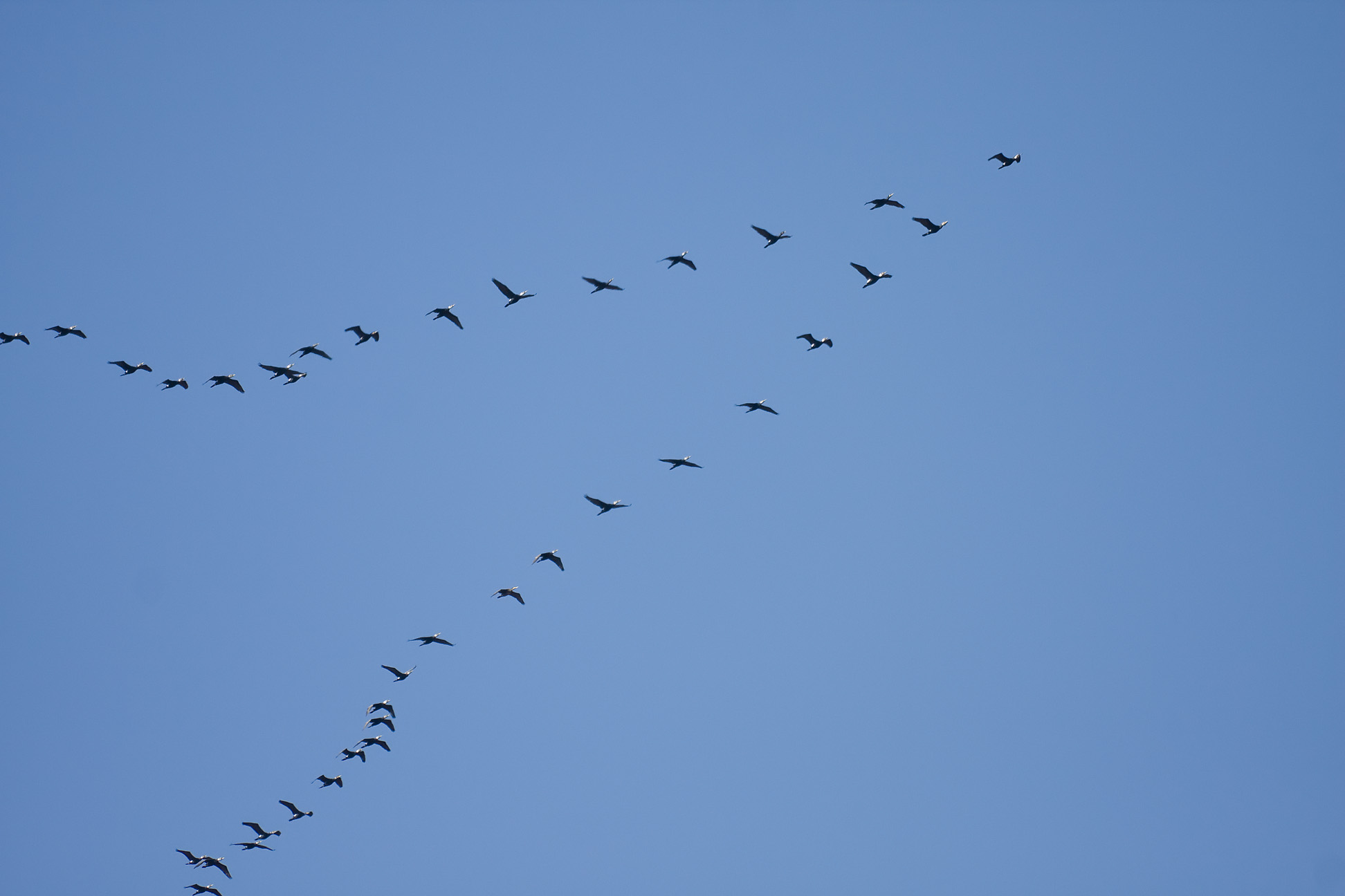 Great Cormorants in V Formation